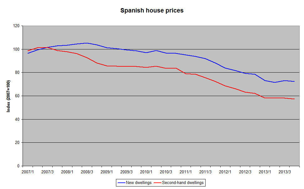 Development of Spanish house prices; source: Instituto Nacional de Estadistica, housing price index, 2007=100